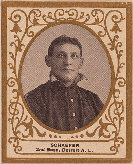 Ramly Cigarettes (T204) baseball card for Germany Schaefer